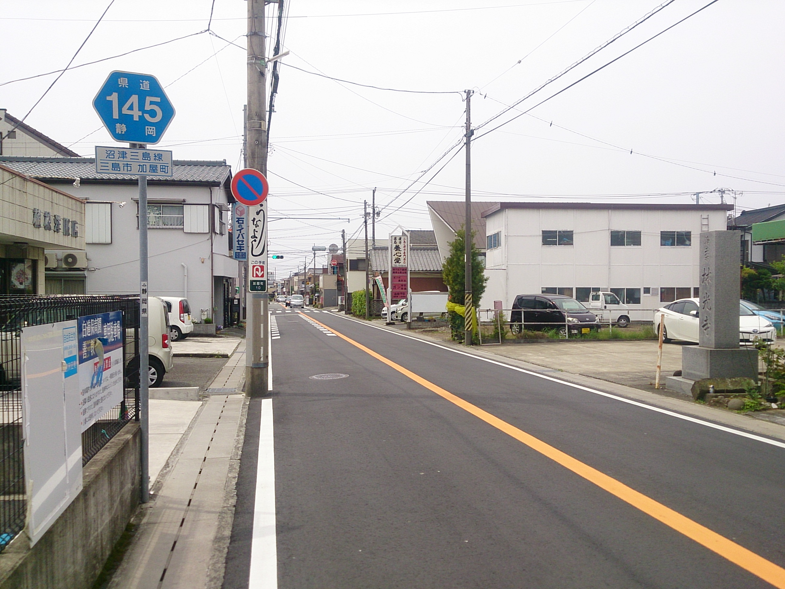 Shizuoka Prefectural Route 145, Mishima, Shizuoka